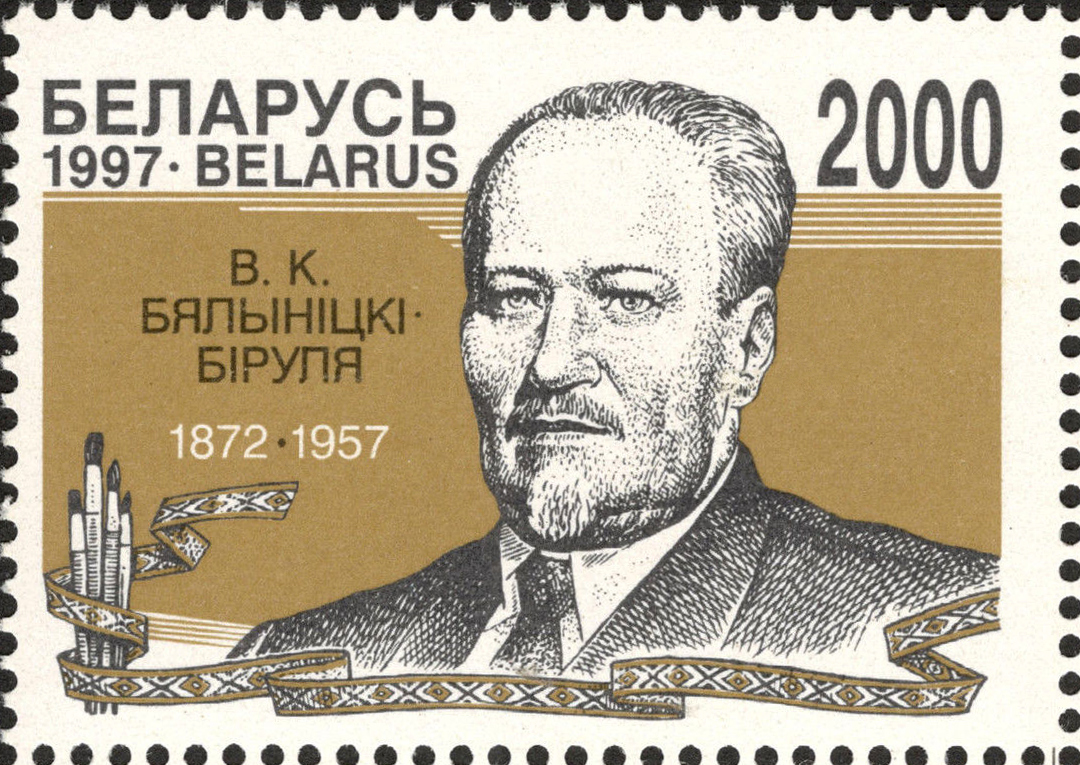 Stamp of Belarus